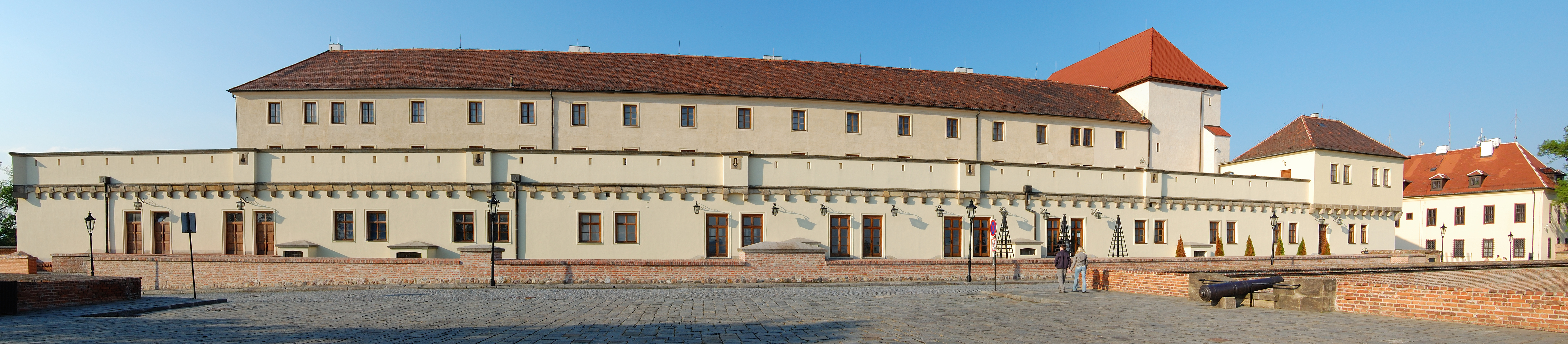 Špilberk castle in Brno. This image was created with Hugin